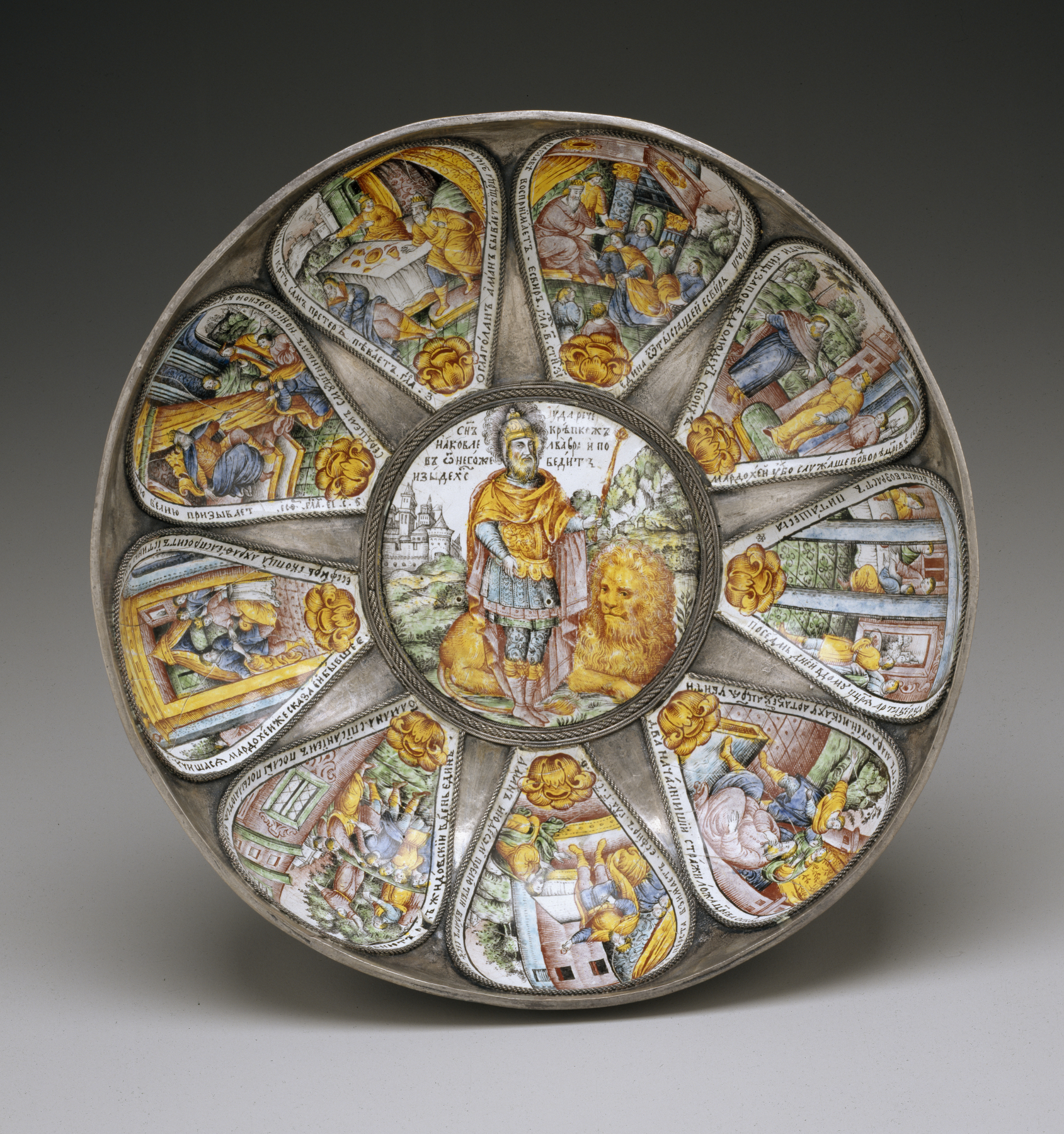 The source for the scenes on this bowl and on a similar one in the Moscow Kremlin Armory (inv. MP-1079) is the illustrated Bible of Nicholaus Johannes Piscator (1586-1652), a Dutch publisher and engraver. This Bible was translated into Russian in the 1670s and became a source for images on objects and church frescoes. The paintings, like the inscriptions, are freely adapted: there are more scenes on the bowl than are illustrated in the Piscator Bible, and sometimes a single scene has been painted in two parts to accommodate the lobes of the bowl. The image in the central medallion seems to allude to the young Russian Czar Peter I (r. 1682-1725), while the surrounding scenes from the Book of Esther may refer to his mother, the Czarina Natalia Kirillovna Naryshkina. Formerly attributed to a Solvychegodsk workshop, the bowl is more likely to have been made in Moscow.